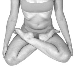 Female padmásana detail